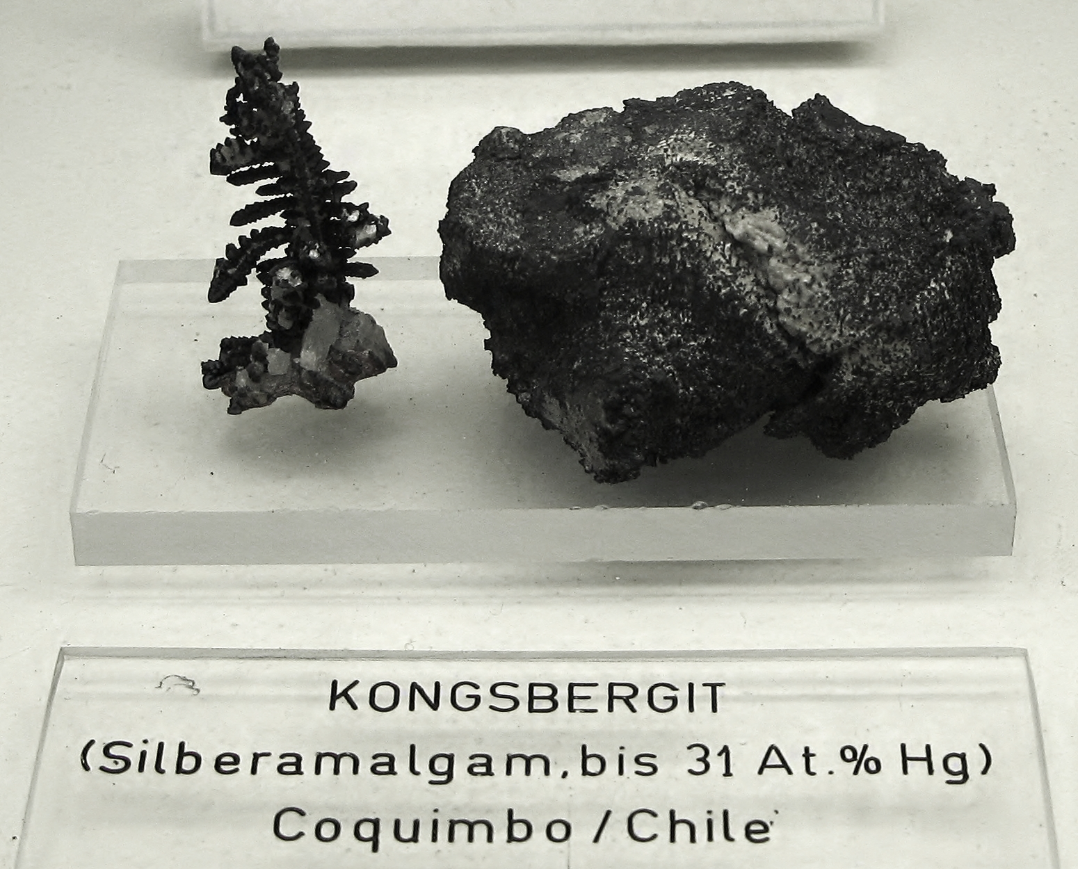 Kongsbergite - Locality: Coquimbo, Chile - Exposed in the Mineralogical Museum, Bonn, Germany